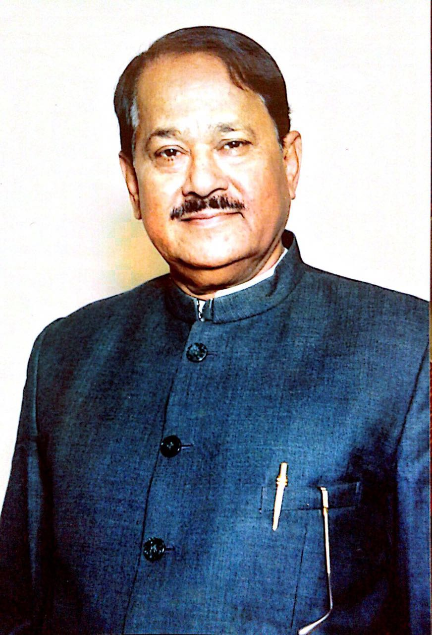 Dr. Daulatrao Aher is a member of the 13th Lok Sabha of India. He represents the Nashik constituency of Maharashtra and is a member of the Bharatiya Janata Party (BJP) political party.